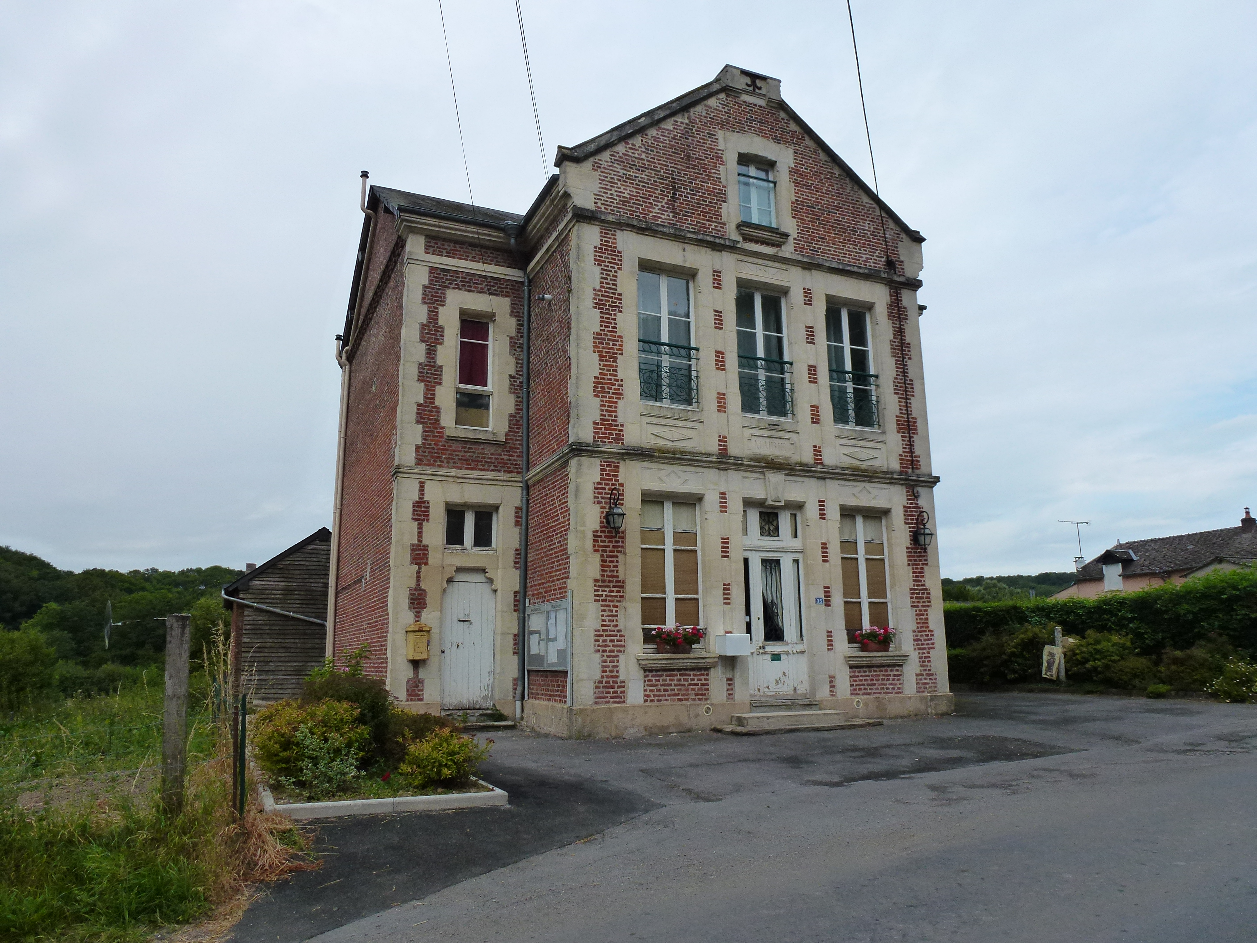 Montmeillant (Ardennes) mairie